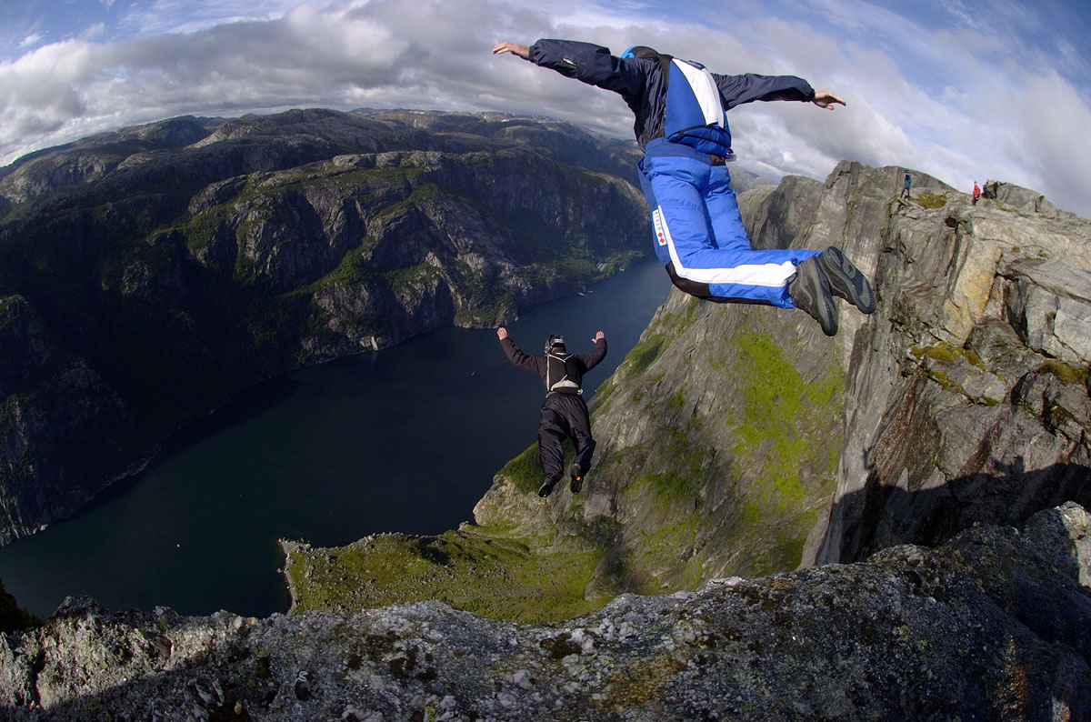 BASE Jump from Earth